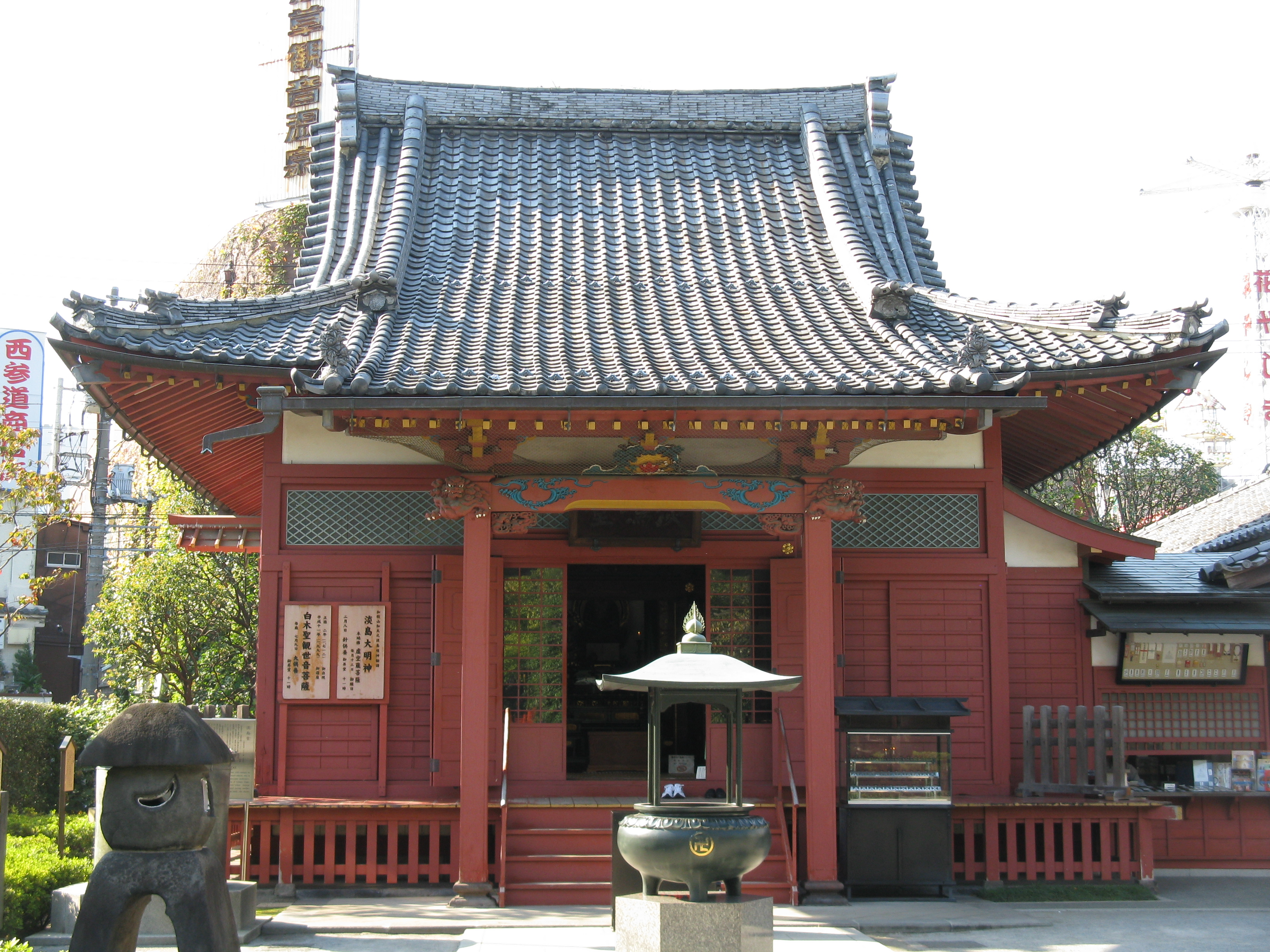 Awashimadō Hall at Sensō-ji Temple